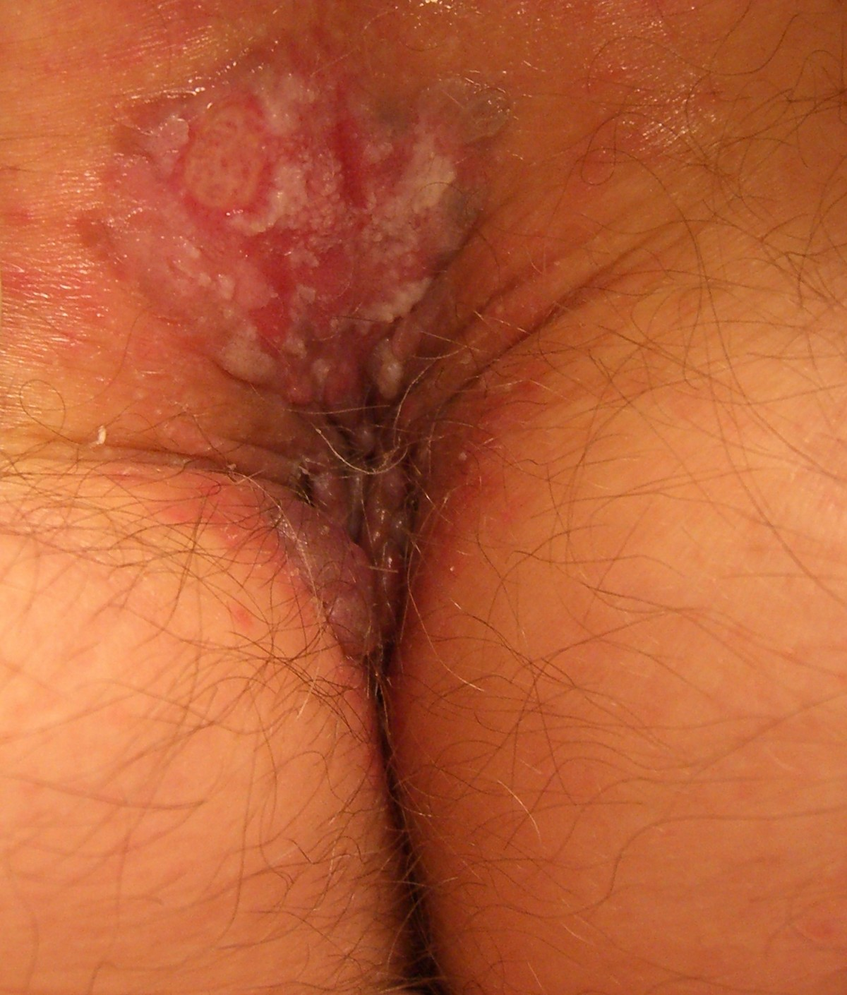 A large red-brown plaque and condyloma acuminata.